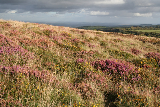 Crowcombe: near Crowcombe Park Gate. View east towards Rams Combe, Over Stowey